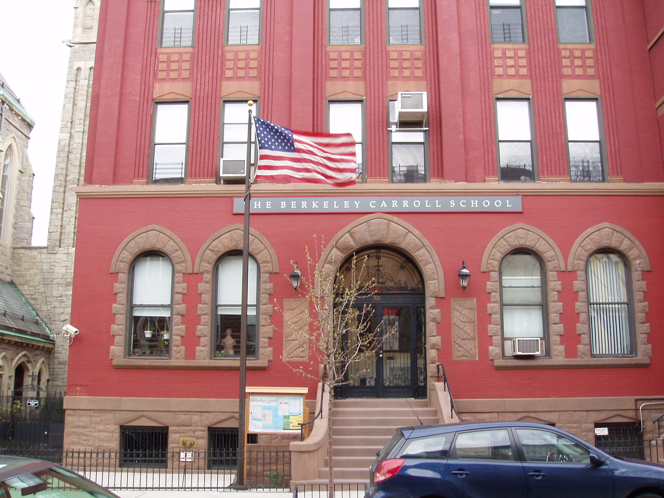 Front of Berkeley Carroll lower school